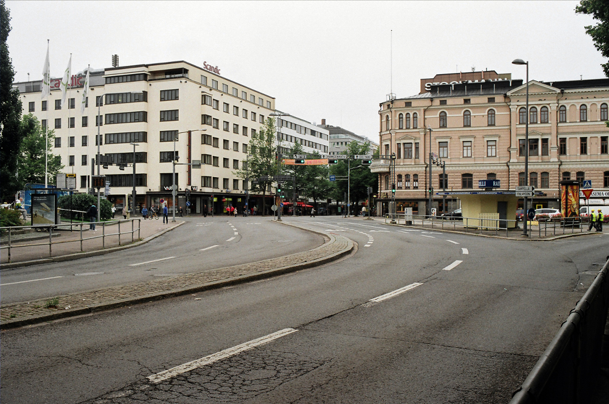 The intersection of the streets Itsenäisyydenkatu, Rautatienkatu, and Hämeenkatu in central Tampere, Finland.